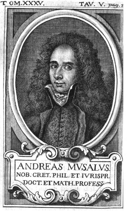 Andreas Musalus (Latin: Andreas Musalus, (Italian: Andrea Musalo), (Greek: Ανδρέας Μουσάλος); ca. 1665/6 – ca. 1721) was a Greek professor of Mathematics, Philosopher and Architectural theorist who was largely active in Venice in the 17th century Italian Renaissance Era.